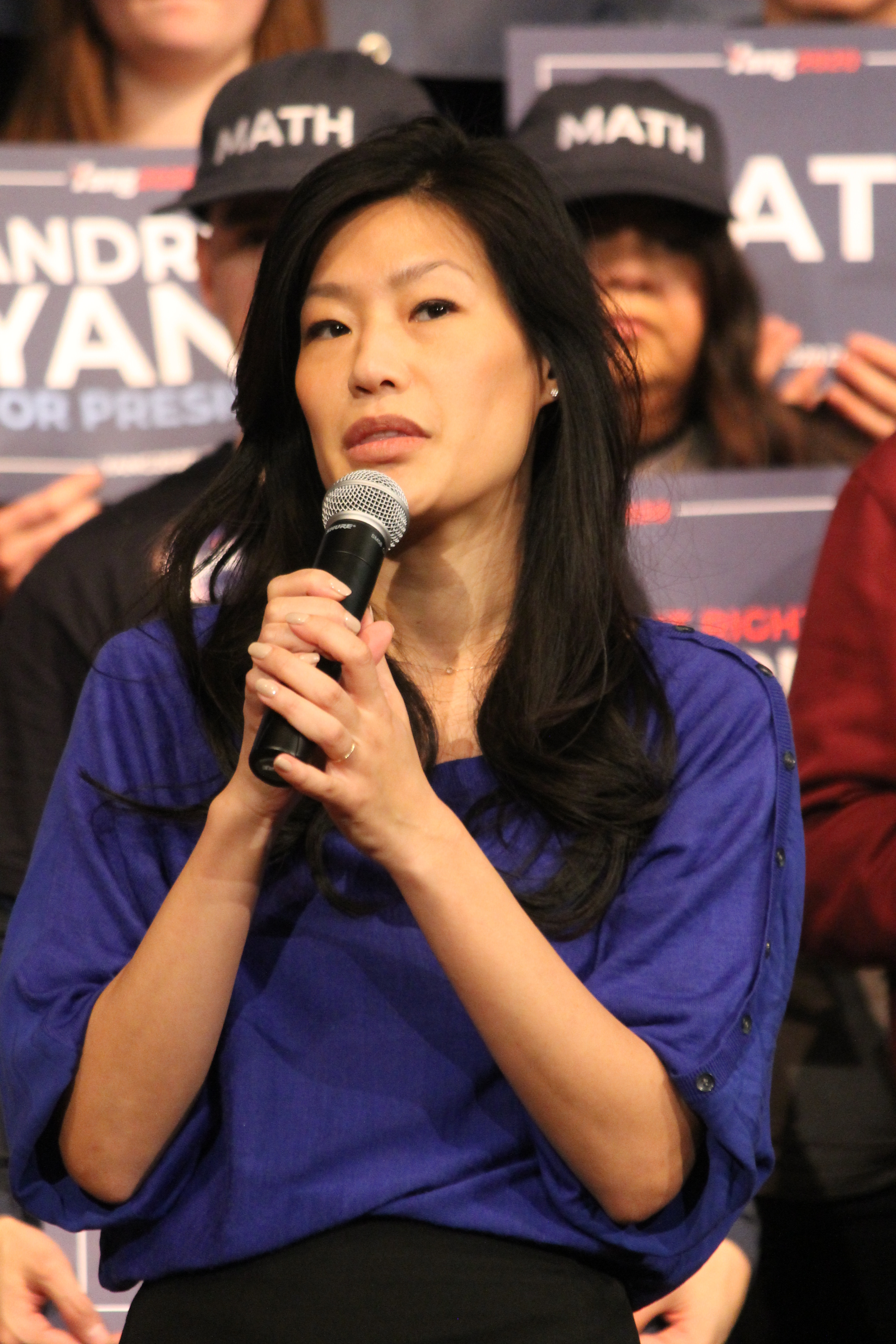 Evelyn Yang, wife of Presidential candidate Andrew Yang, speaks to guests at a rally at Abraham Lincoln High School in Council Bluffs, Iowa. Please credit Matt A.J. if used elsewhere